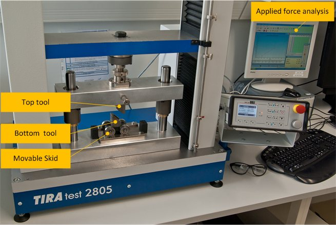 Shear test installation (TIRA Test 2805) for wafer bond measurements and characterization.